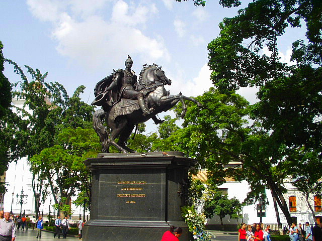 Statue of the Liberator Simón Bolívar in the Plaza Bolívar of Caracas.